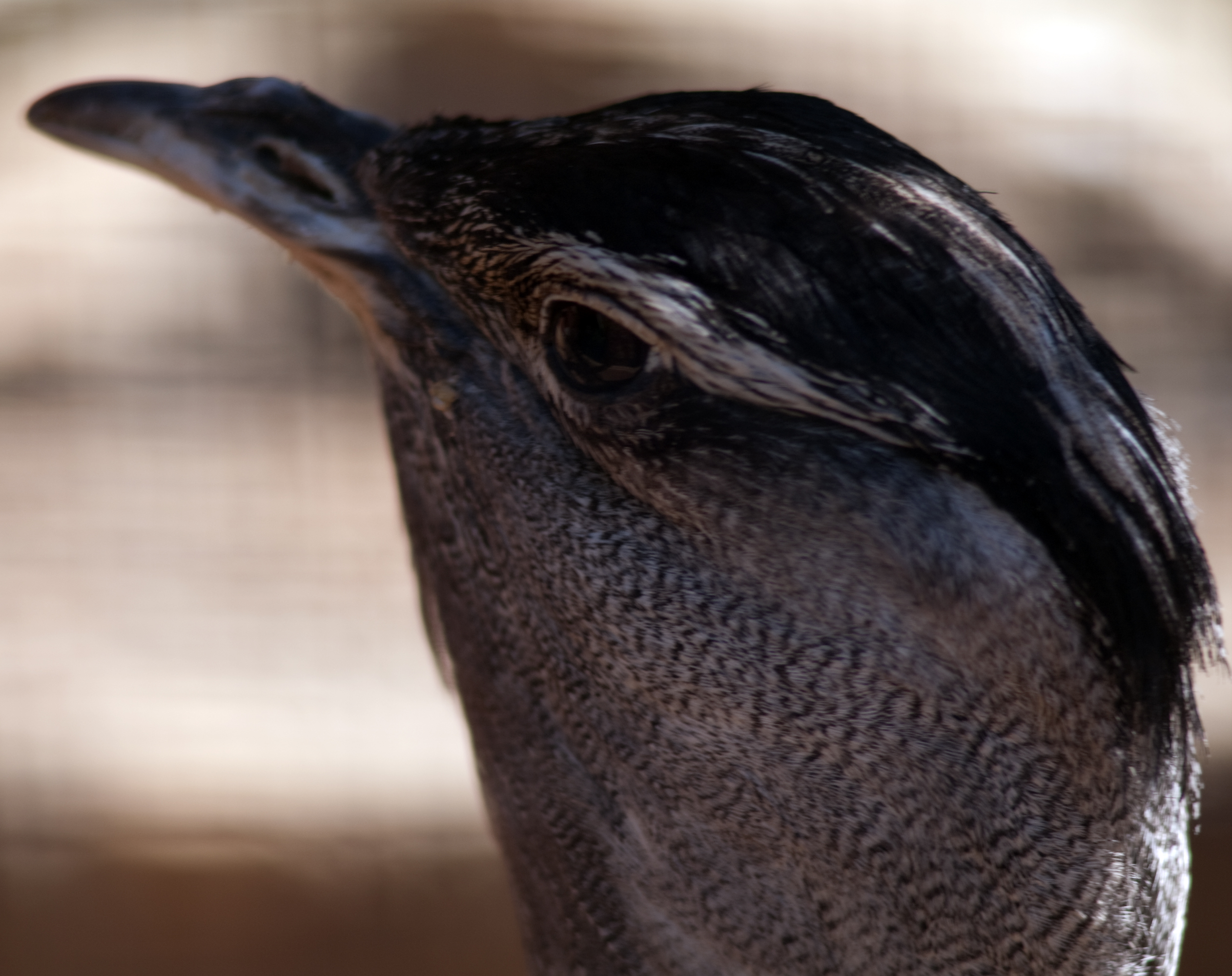 A close-up view of the Australian Bustard (Ardeotis australis), a large ground-dwelling bird native to Australia and New Guinea. It is often commonly referred to as a "Bush Turkey".